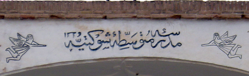 Inscription showing the founding date of Shokatieh school in Birjand, Iran. This was among the first modern educational institutions in Iran.